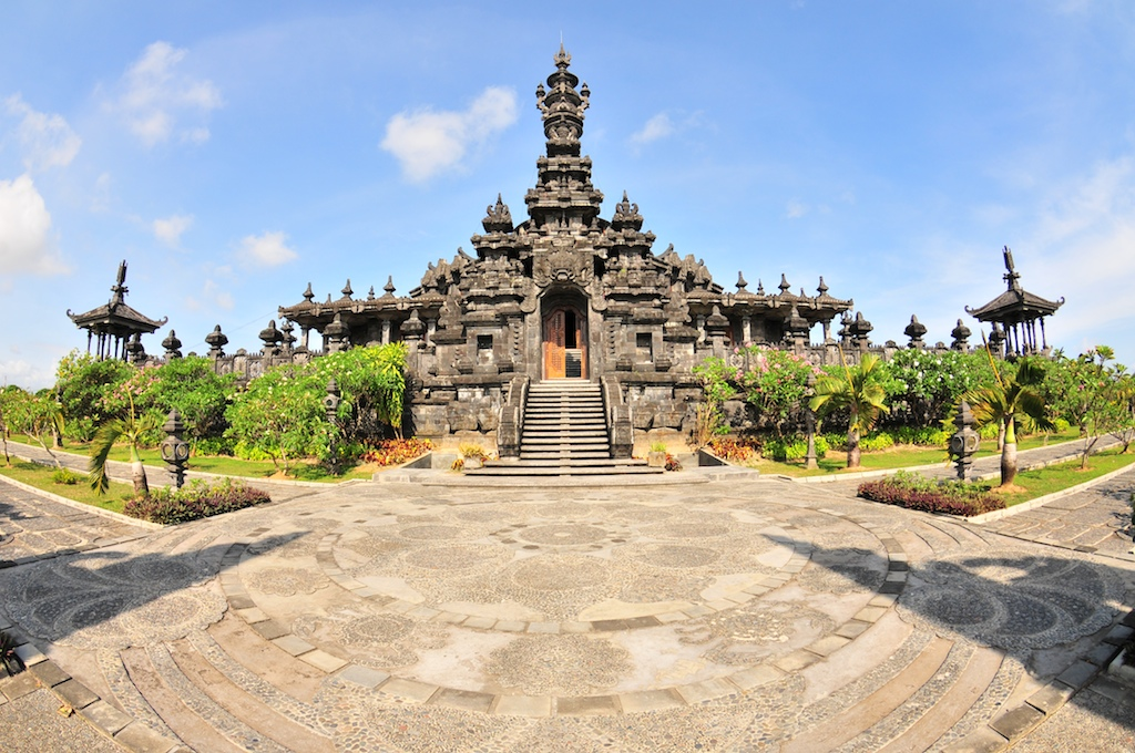 081006-RWP_9711, Denpasar